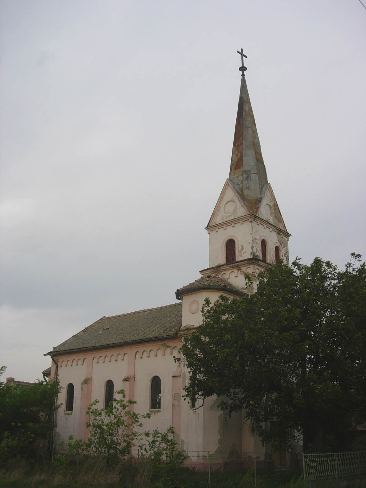 Saint Mary Magdalene the Repenter Roman Catholic Church in Bikač, Vojvodina, Serbia.